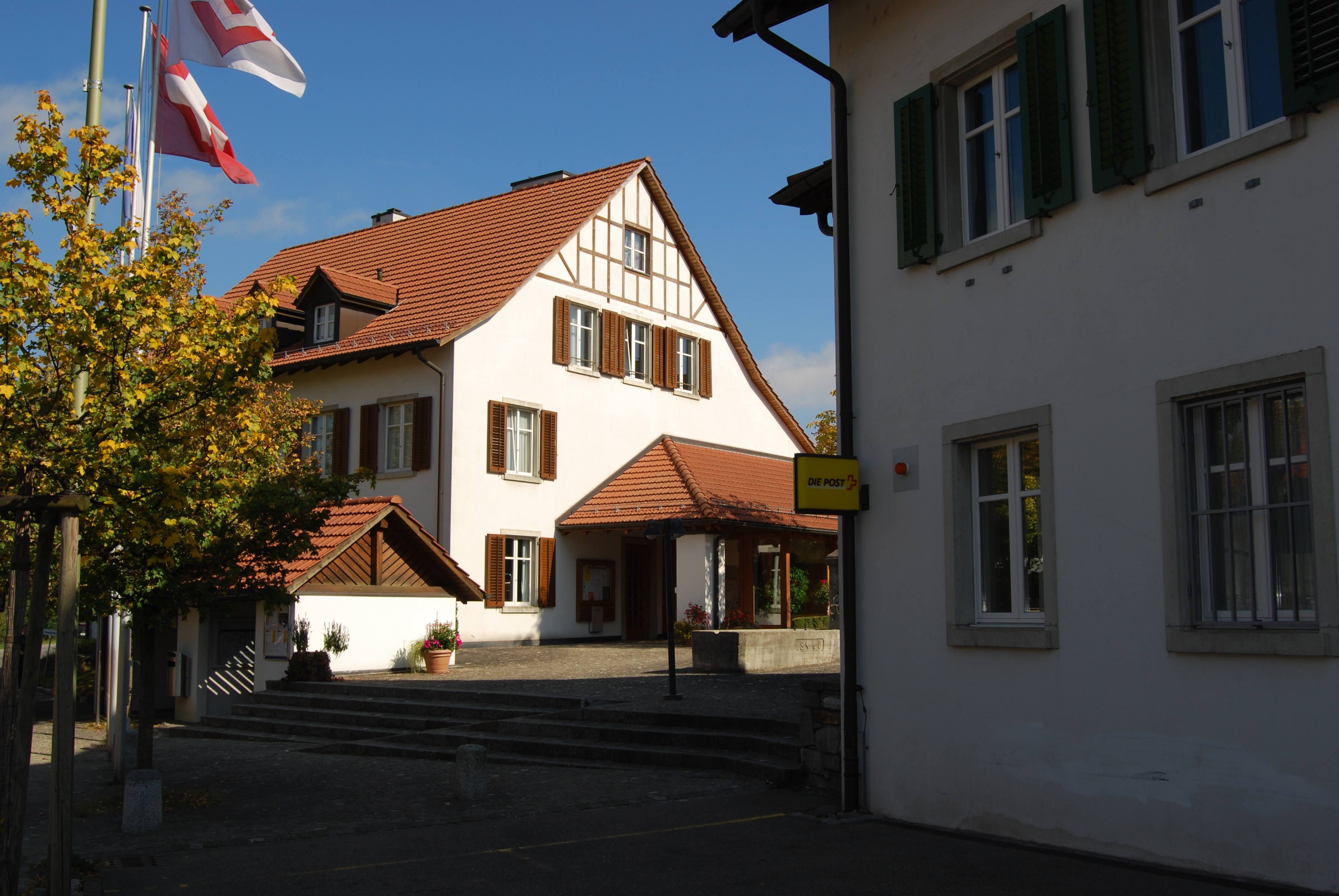 Municipal Administration and Post Office of Aesch, canton of Zürich, SwitzerlandEsperanto: Komunuma domo kaj poŝtoficejo de Aesch, Kantono Zuriko, Svislando